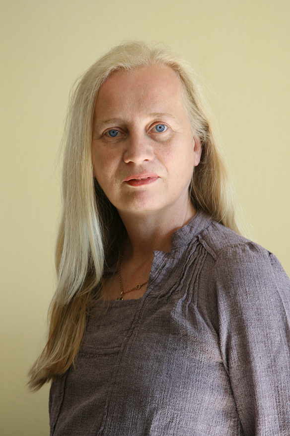 Portrait Gabriele Seifert 2009